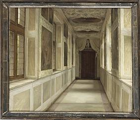 Grand Corridor in Frederiksborg Castle.